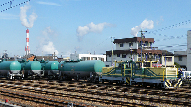 The above oil train's double traction consists of switcher No.14 & 15 of Showa yokkaichi oil corporation.